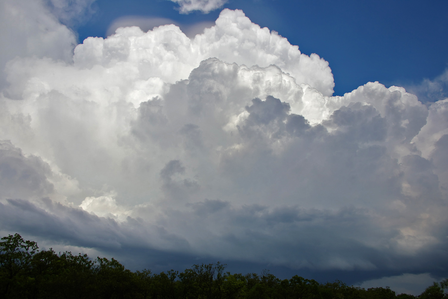 Cumulonimbus cloud with Pileus in the Northern Territory.